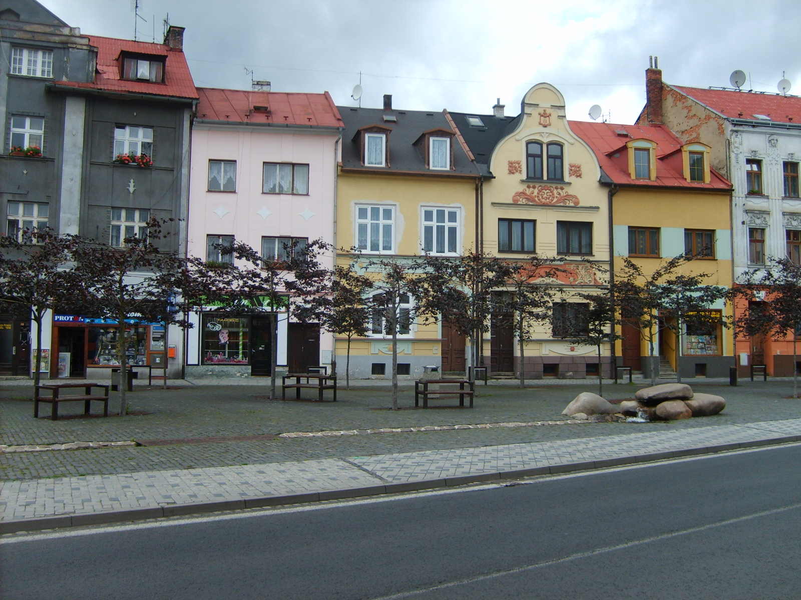 Artificial rivulet on Nejdek town square "Charles IV.", Carlsbad county.